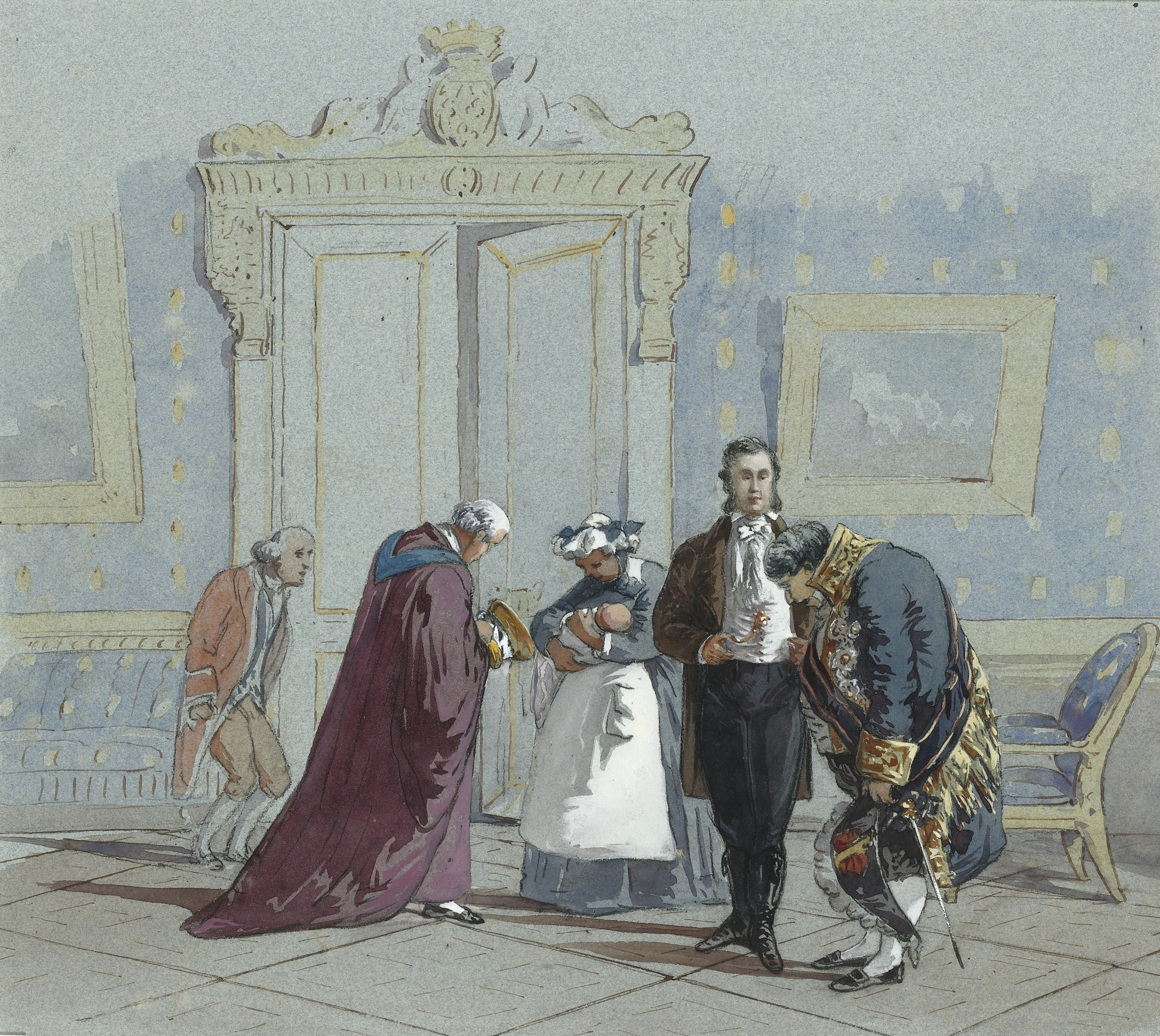 Watercolor by François d'Orléans, prince de Joinville (1818-1900) - Ma naissance